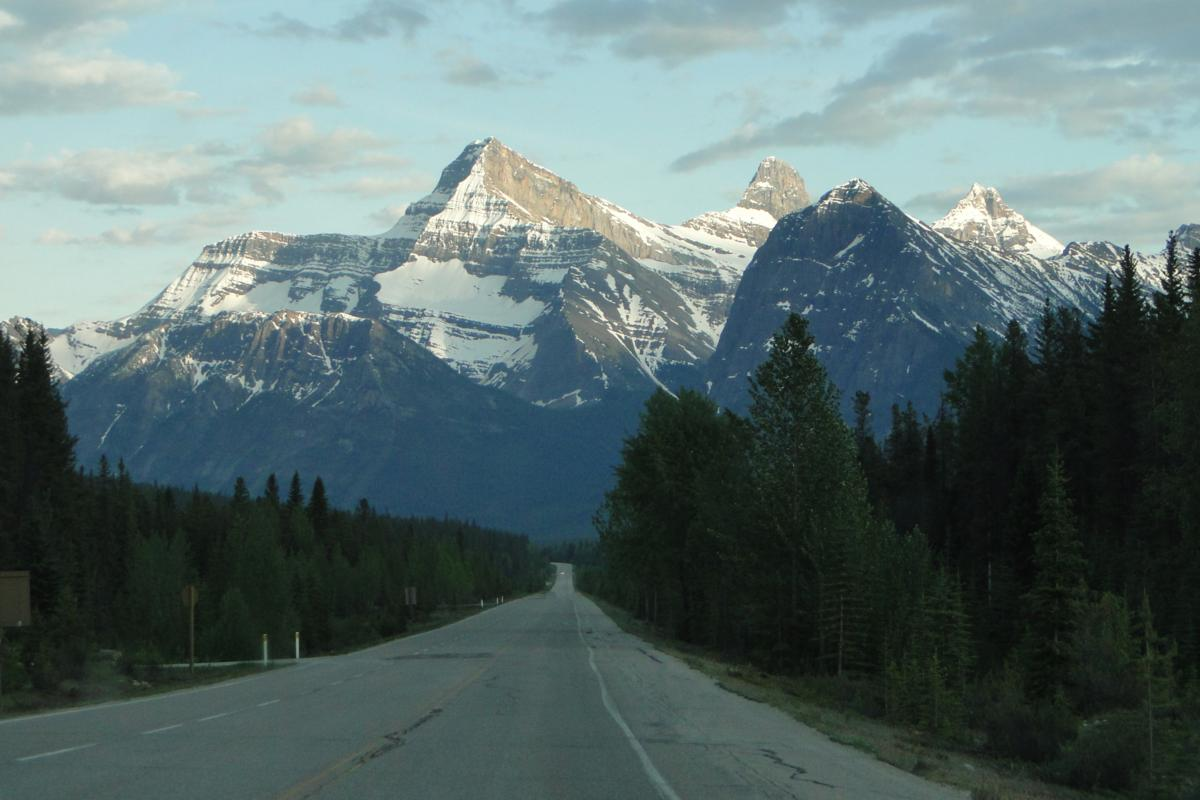 Icefield Parkway